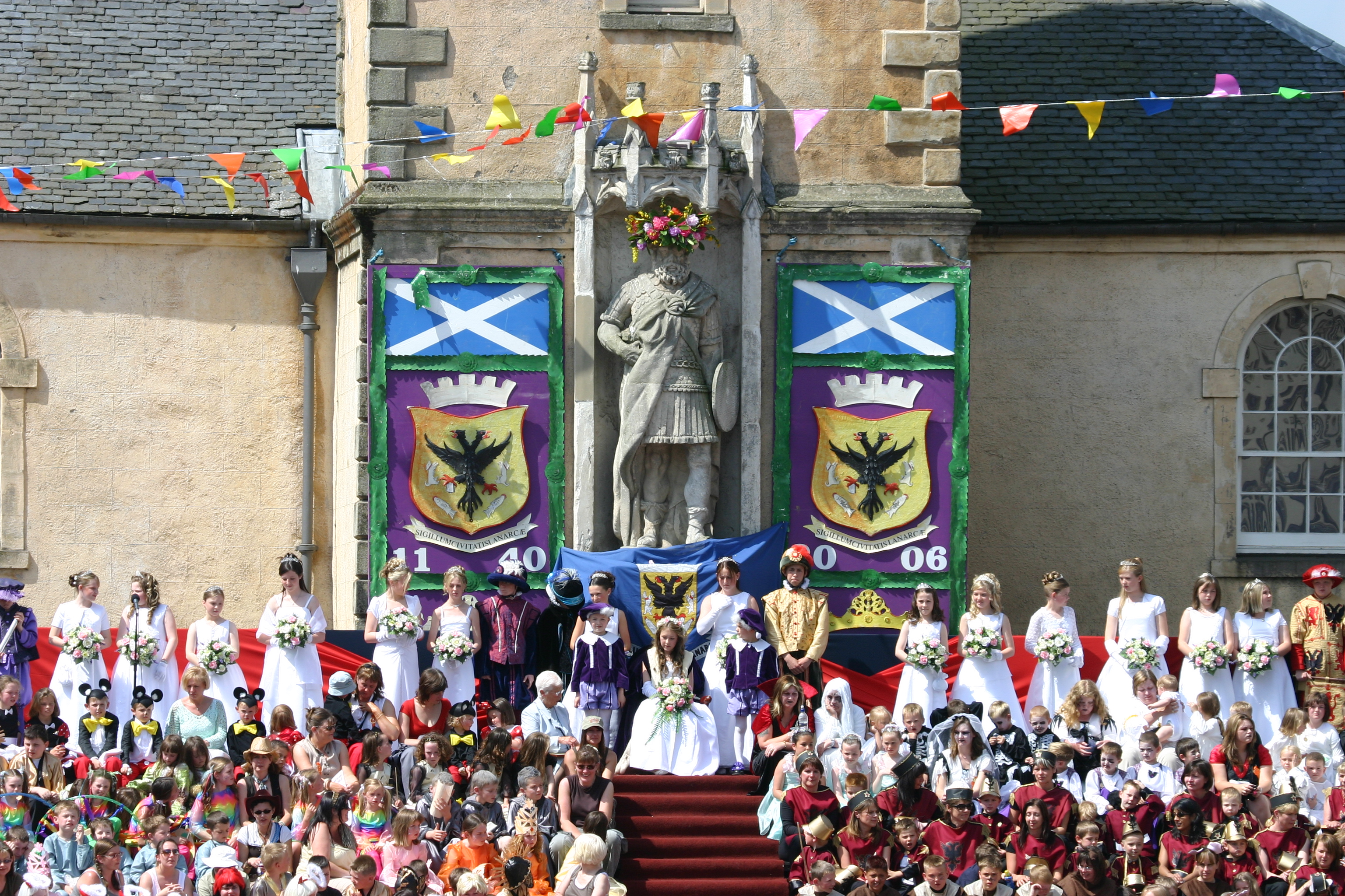 Lanark Lanimers Court 2006 - Shot from half way up the high street.